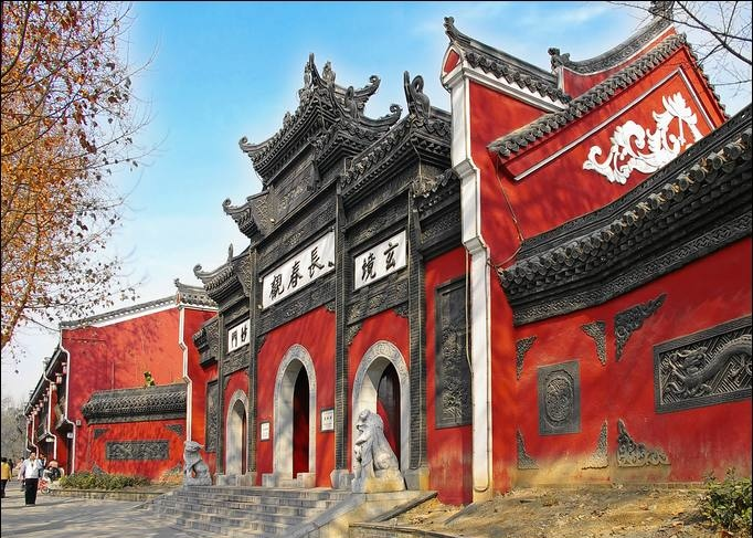 Changchun temple, one of China's famous Taoist temples, in Wuhan city. Bân-lâm-gú: Tī Tiong-kok tsiânn tshut-miâ ê Bú-hàn-tshī Tō-kàu Tiông-tshun-kuan. 佇中國誠出名的武漢市道教長春觀。